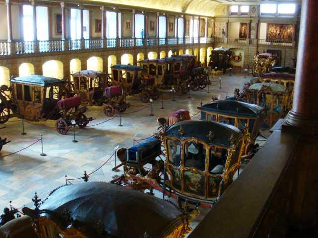 The National Coach Museum